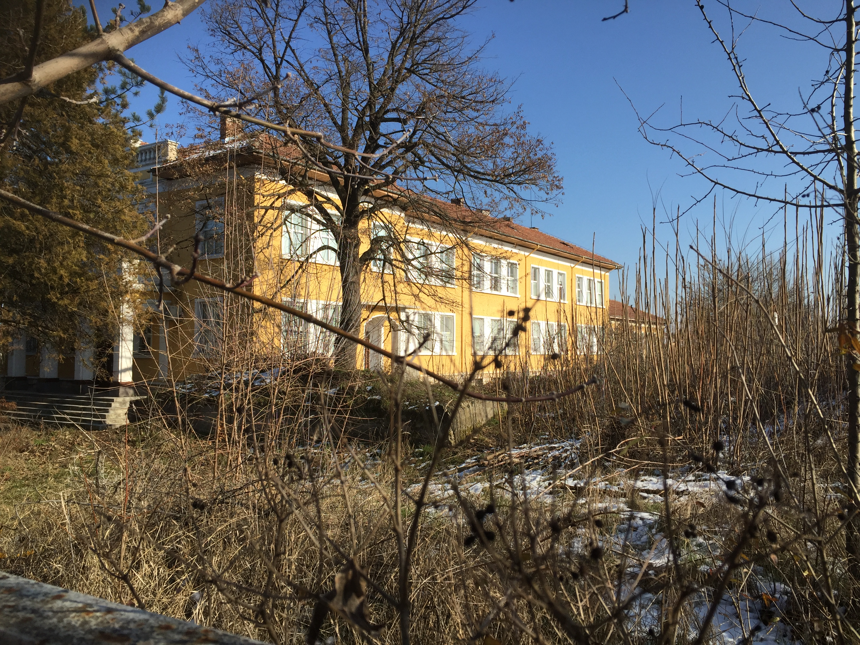 School in the village of Bohog, from the back yard, in January 2020.